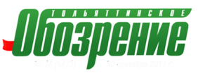 The logo of the city newspaper Tolyattinskoye Obozreniye 2012